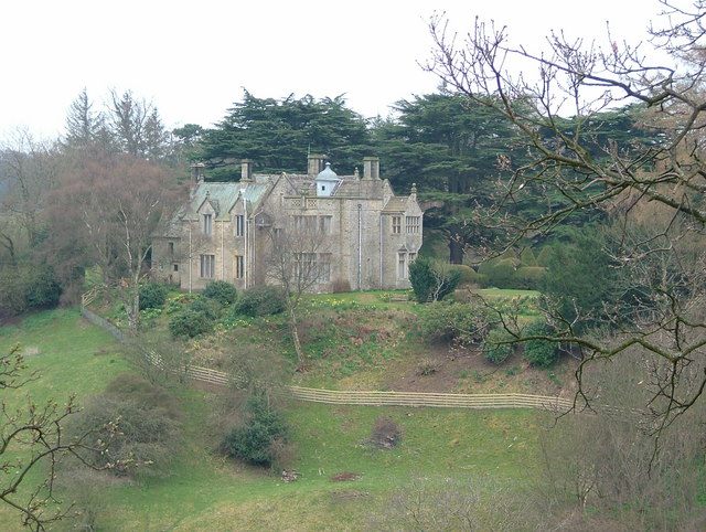 Balder Grange Balder Grange is a beautiful Victorian country house which stands on the outskirts of the village of Cotherstone in Teesdale.